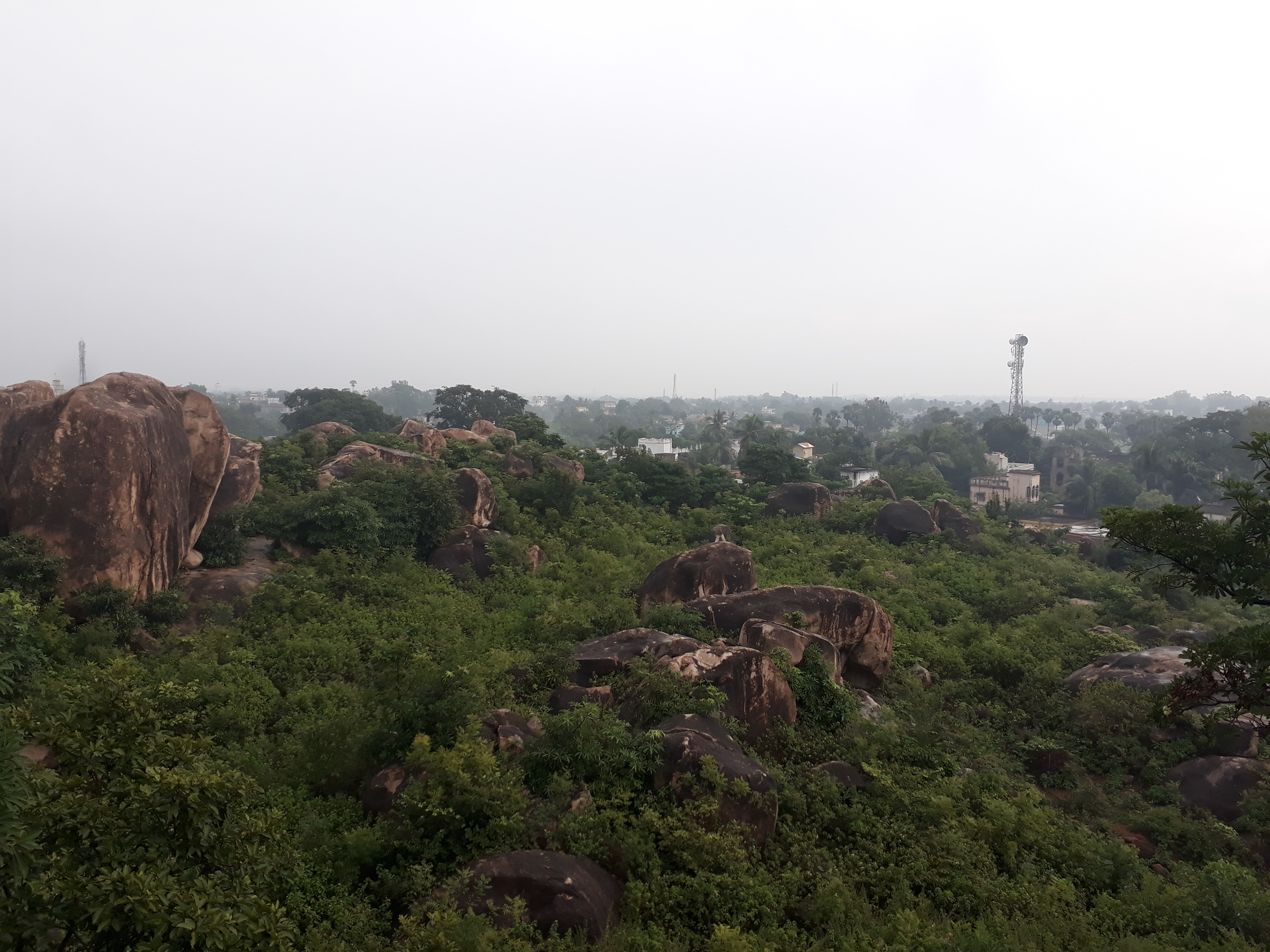 Mama Bhagne Hills and Temple in Dubrajpur town, Birbhum, West Bengal